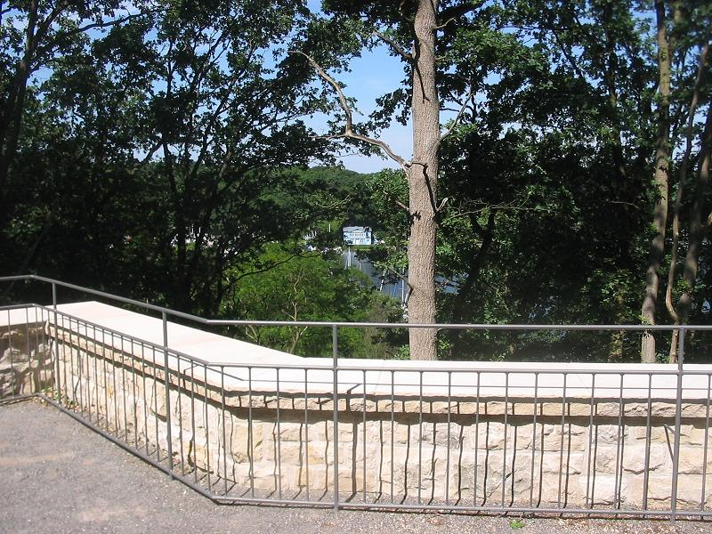 The Stößensee is a lake in Berlin-Wilhelmstadt (Borough Spandau) and Berlin-Westend (Borough Charlottenburg-Wilmersdorf), Germany. The lake is a bay of the river Havel.